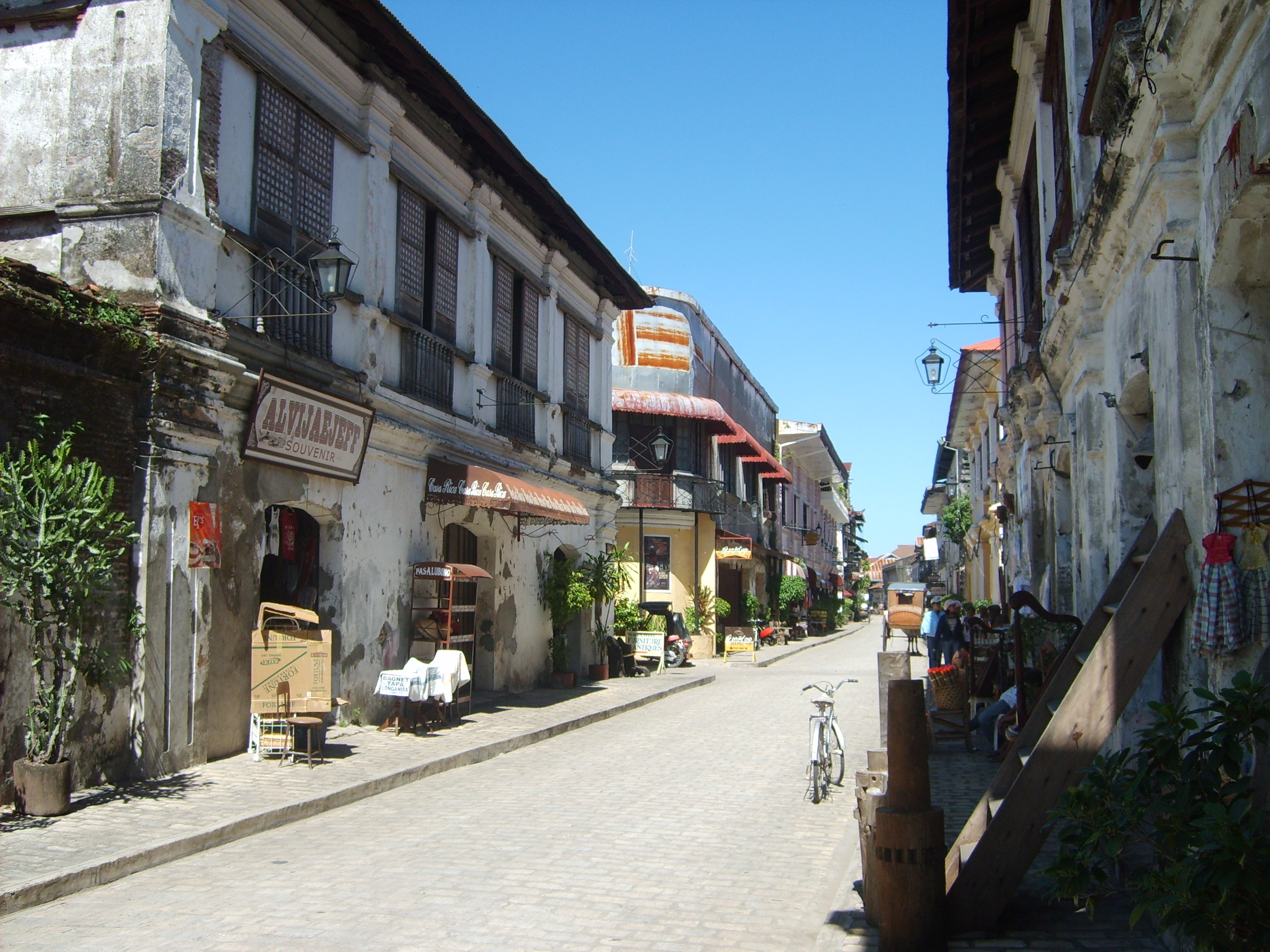 Calle Crisologo in Vigan, Ilocos Sur, in the Philippines.